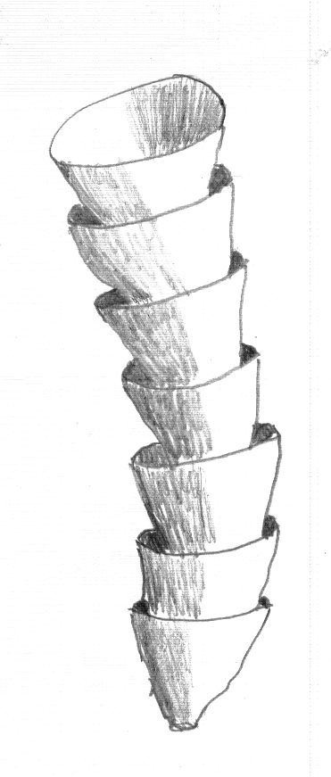 Drawing of Cloudina fossil from my imagination